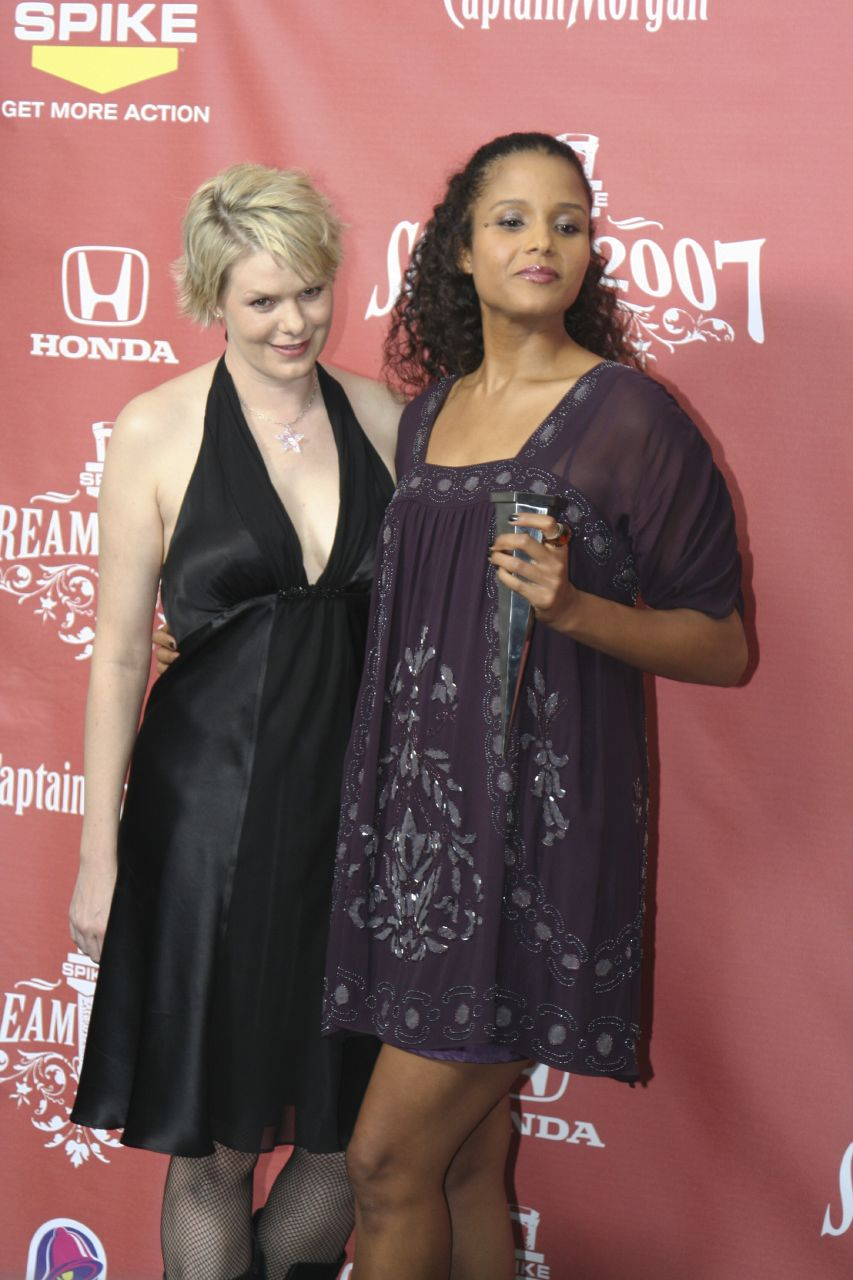 American actresses Monica Staggs (left) and Sydney Tamiia Poitier (right). Taken at the 2007 Scream Awards.